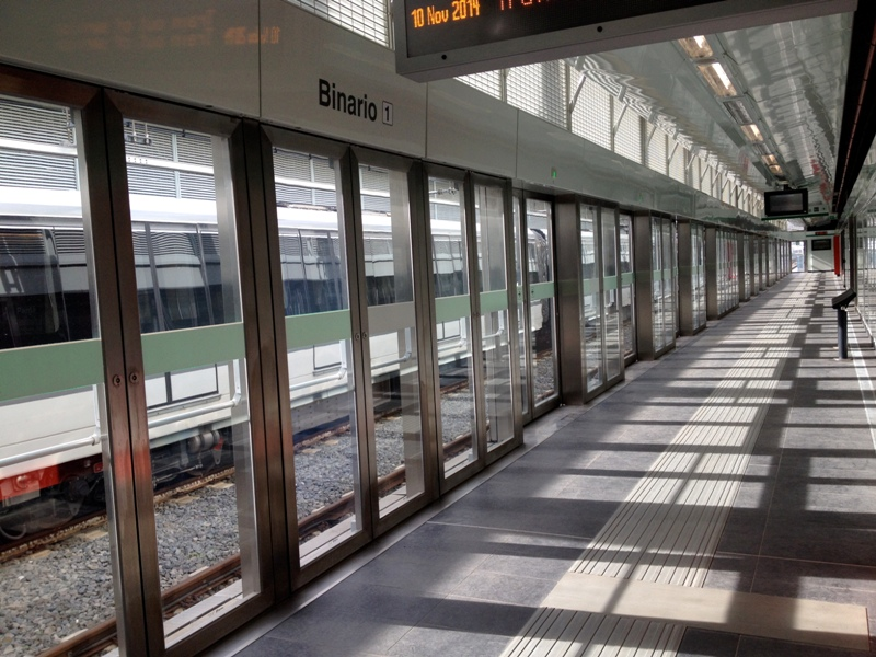 Platform of Monte Compatri-Pantano station on line C of the Rome Metro.